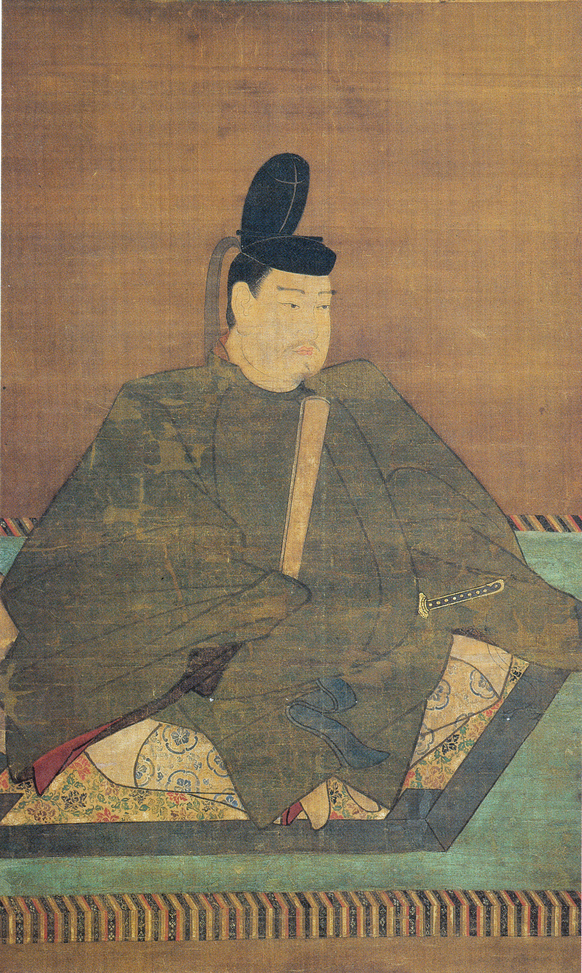 Portrait of The Emperor Shomu, Japan, Kamakura period, 13th century, Imperial collection